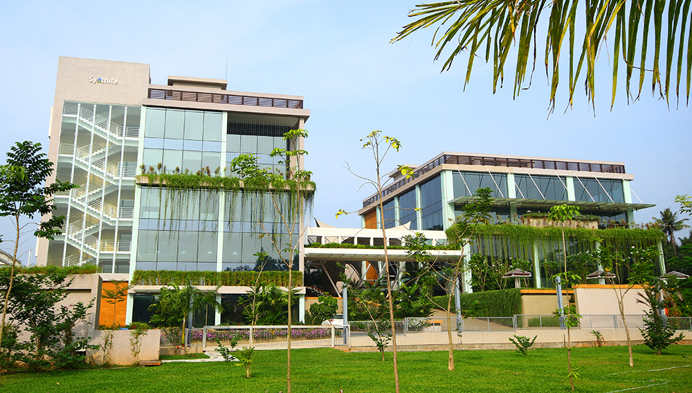 Synthite corporate office photo